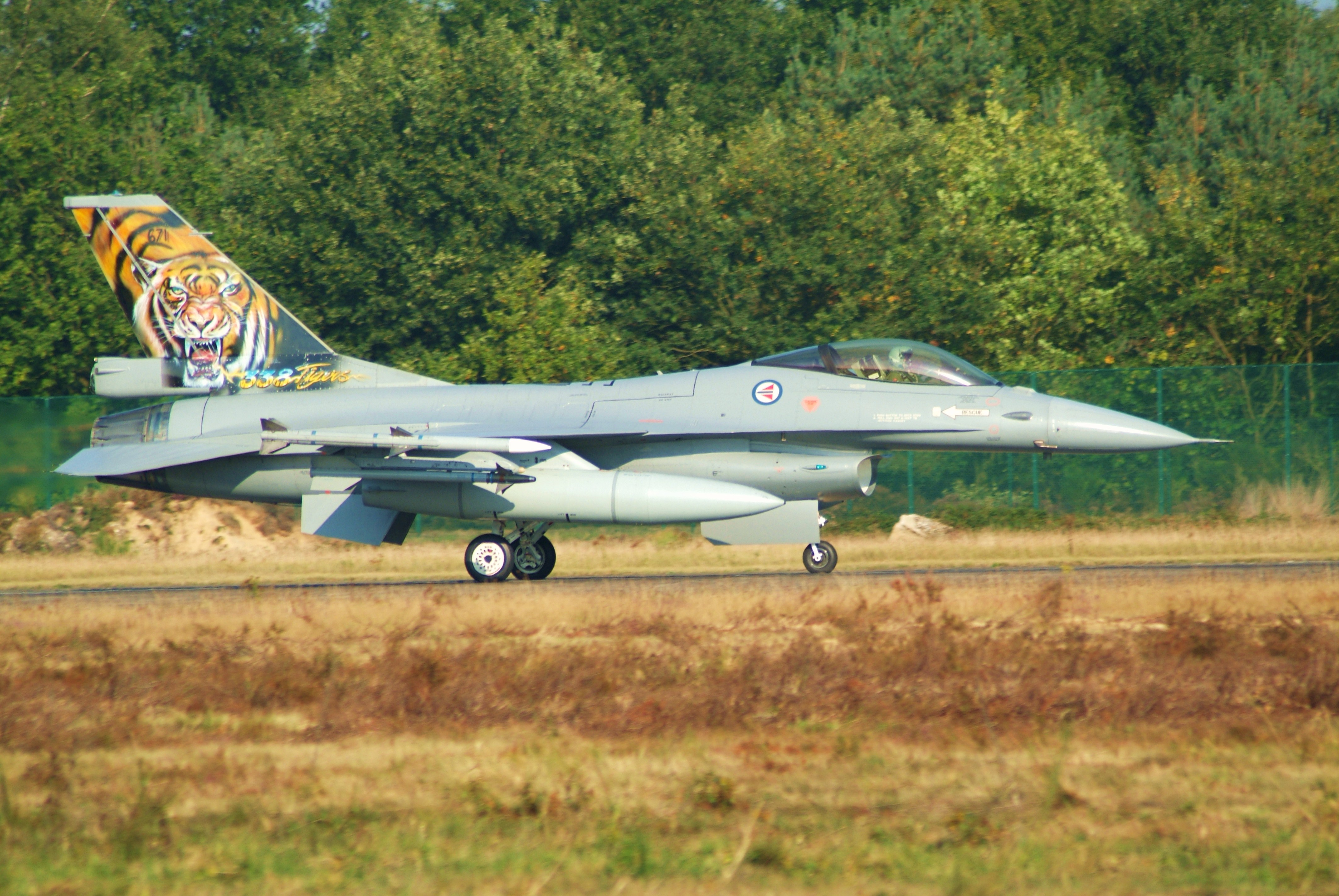 F-16AM from the Norwegian Air Force's 338 Skv